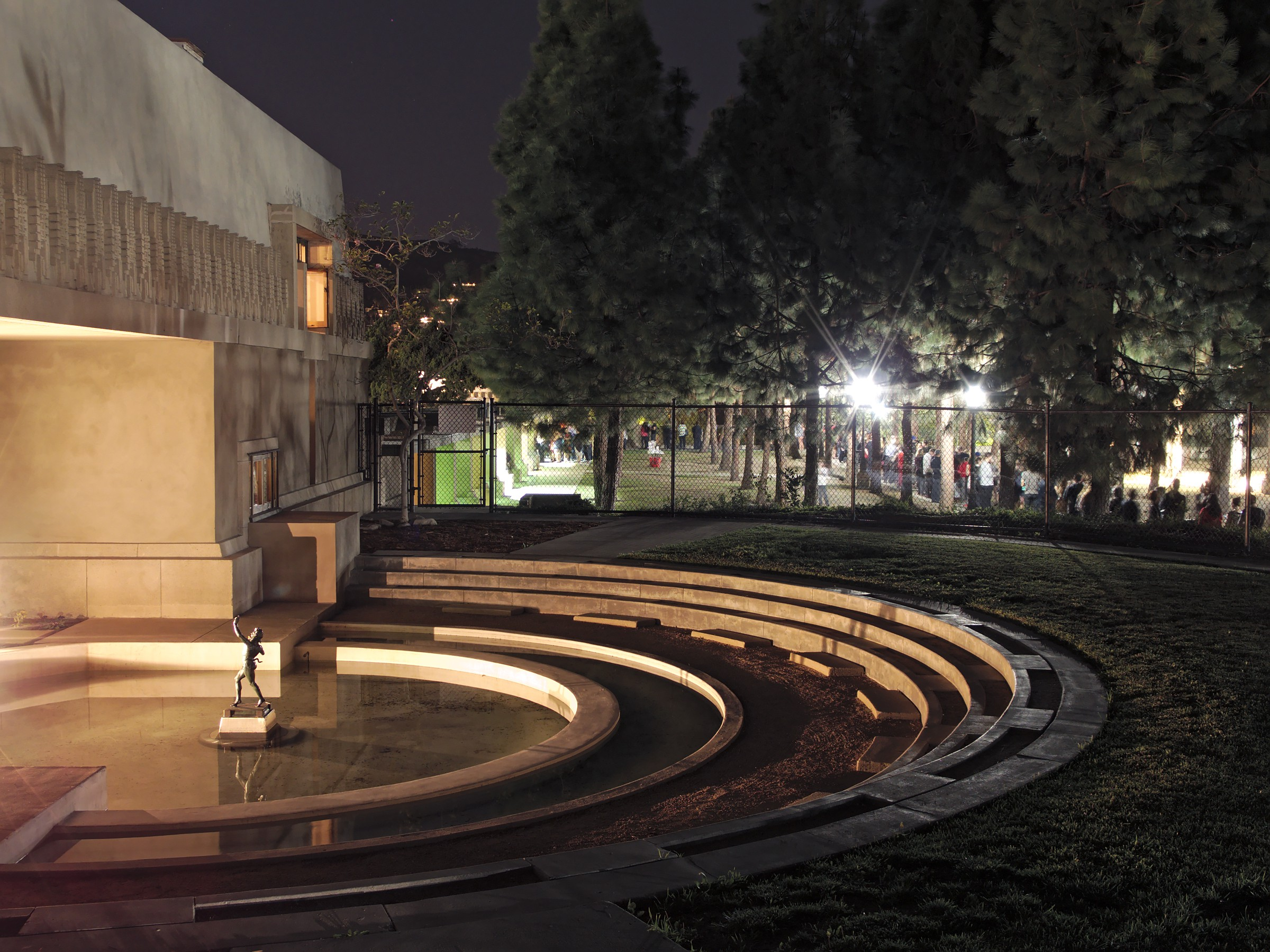 Lighted ornamental pool at the re-opening of Hollyhock House in 2015. The 24-hour event drew large crowds, waiting in line for hours for admittance (visible in background).